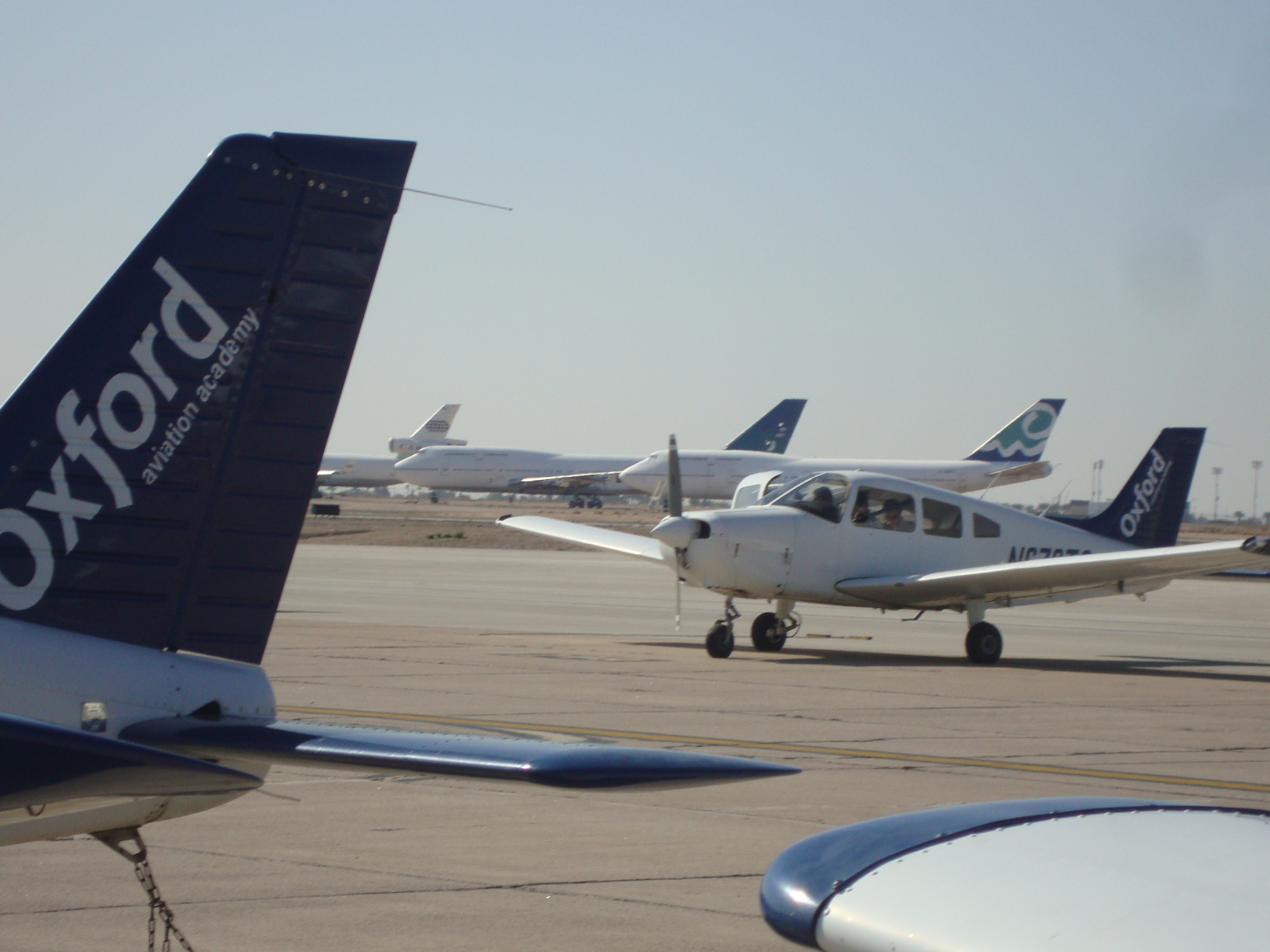 Phoenix Goodyear Airport